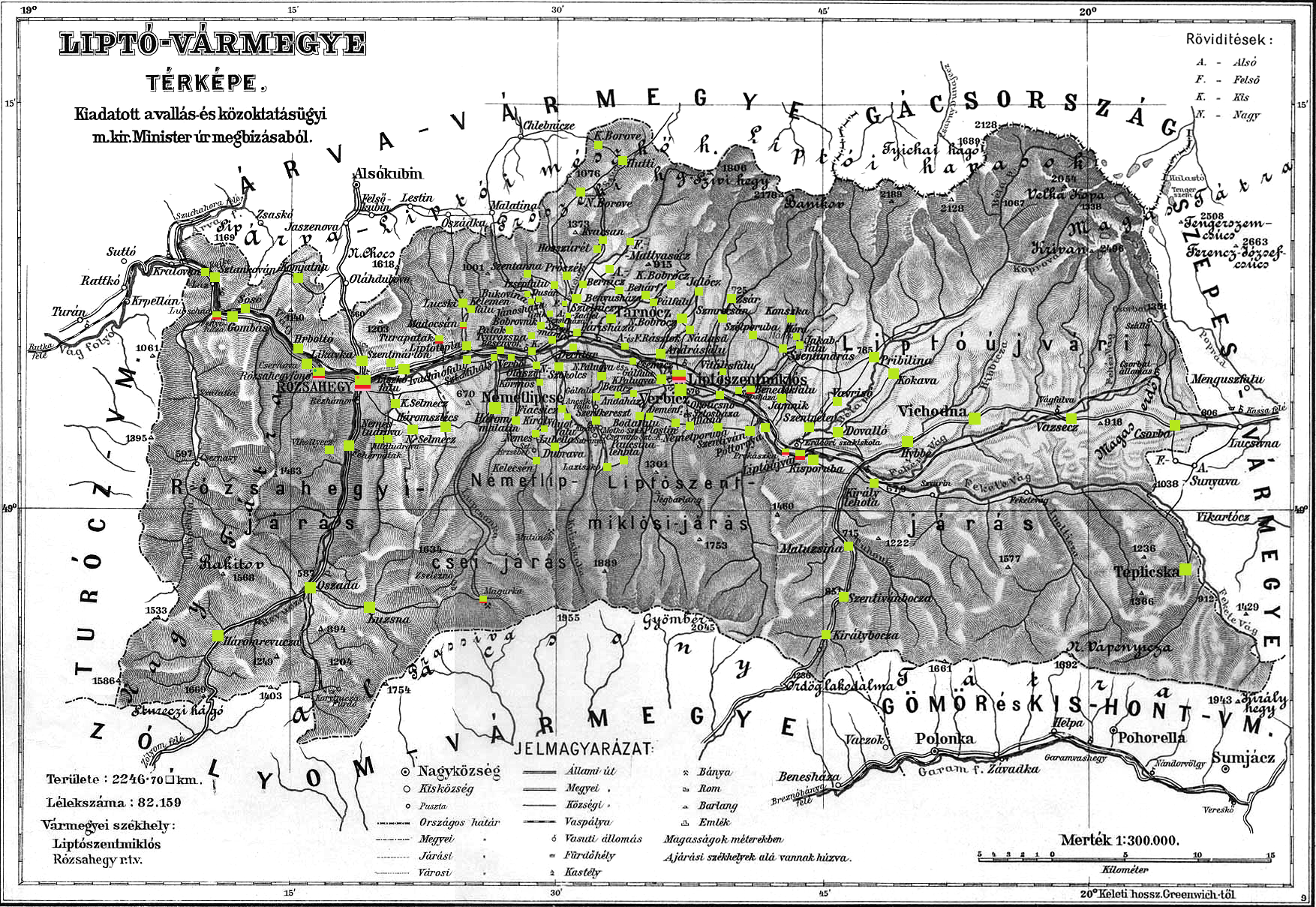 Ethnic map of the county (with data of the 1910 census). Key: light green - Slovaks; red - Hungarians; pink - Germans; orange - Polish. Coloured dots in plain rectangles imply the presence of smaller minority populations (generally more than 100 people or 10%). Multicoloured rectangles imply cities and villages with multi-ethnic populations with the order of the stripes following the ethnic composition of the settlement.